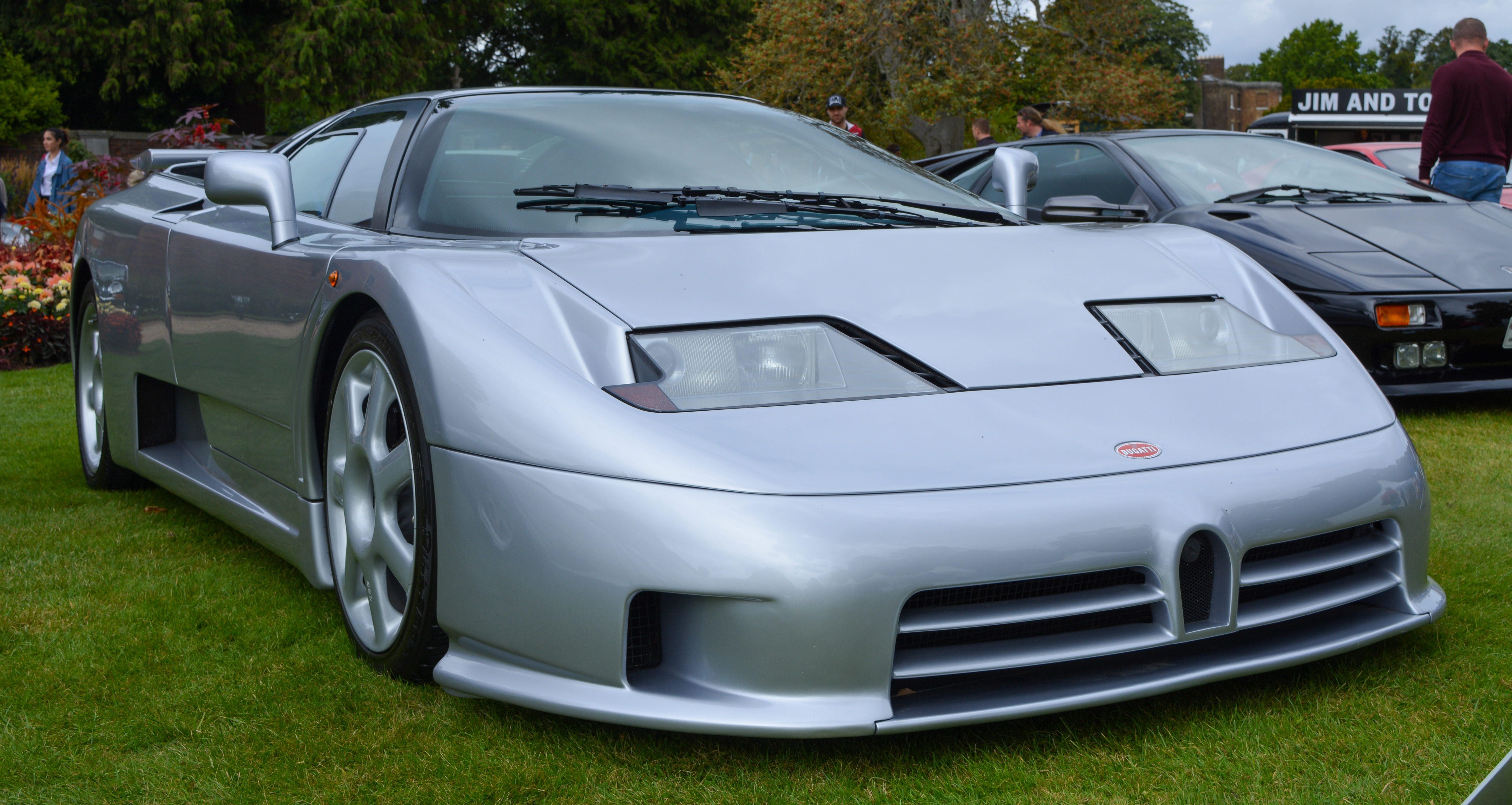 1992 Bugatti EB110 Super Sport Taken at the Concours d'Elegance Hampton Court 2019